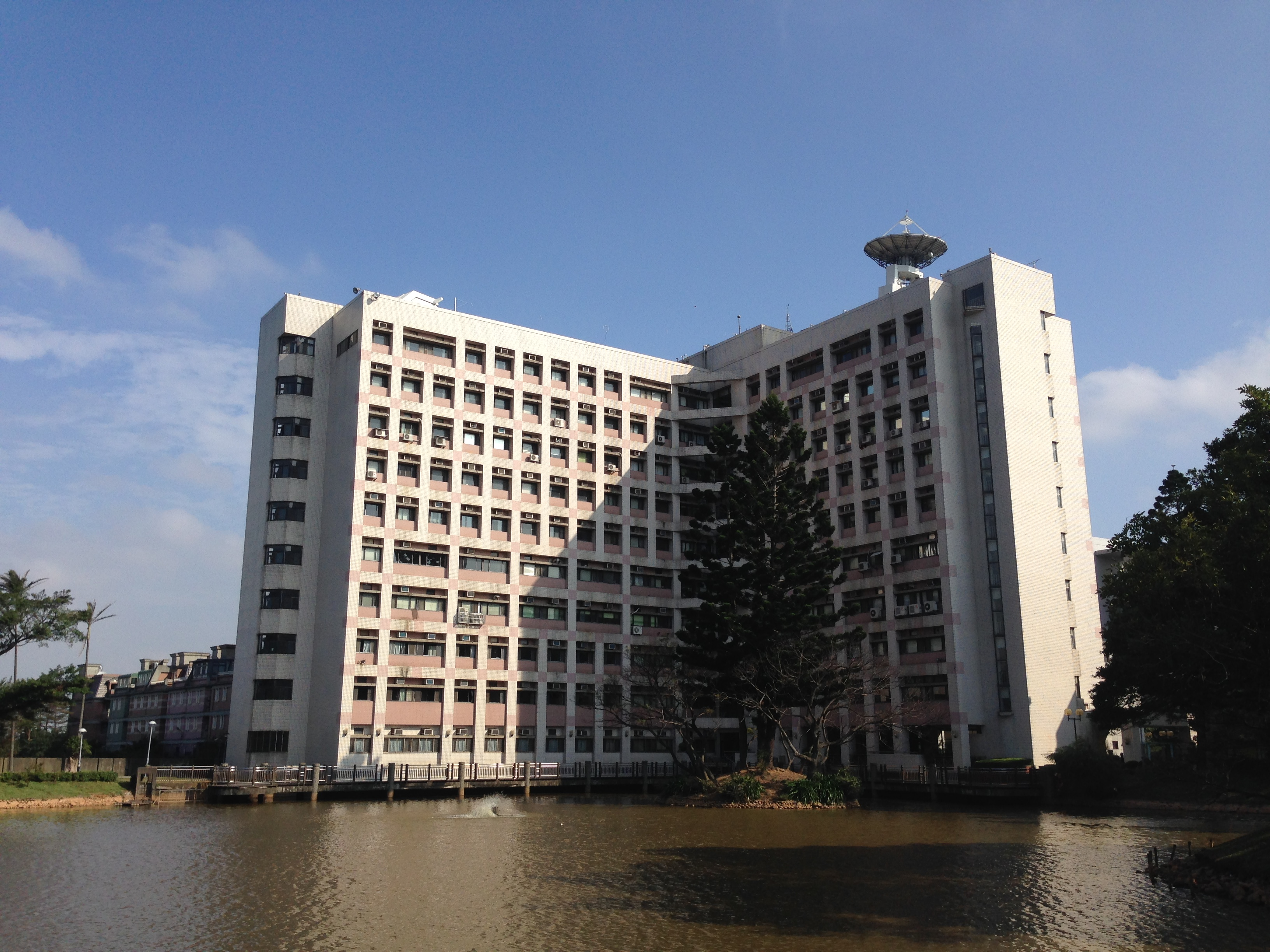 Chien-Shiung Hall